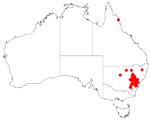 Acacia leucolobia Occurrence data from Australasia Virtual Herbarium downloaded from on 8 December 2018